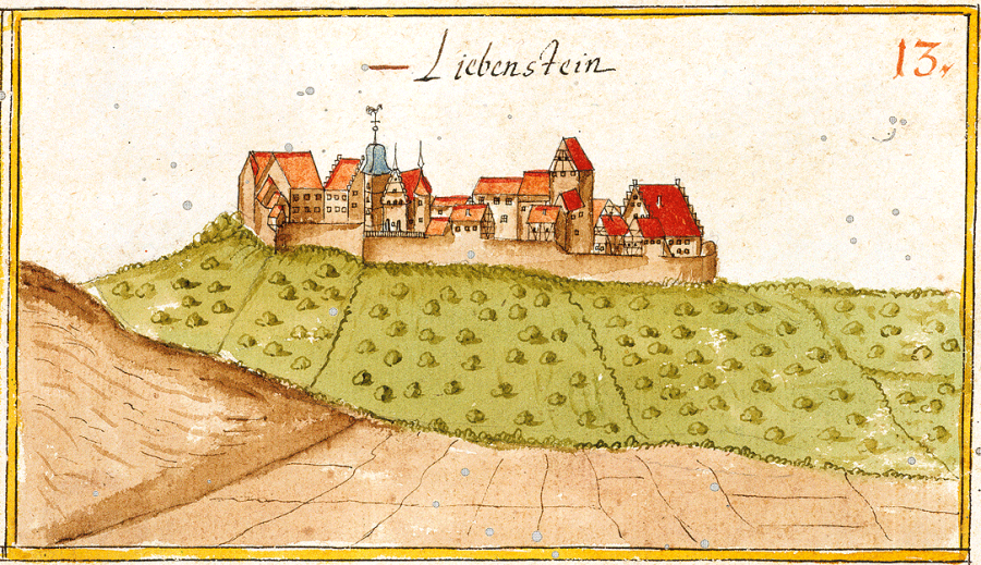 View of Liebenstein, Neckarwestheim, from the forest register books created by Andreas Kieser